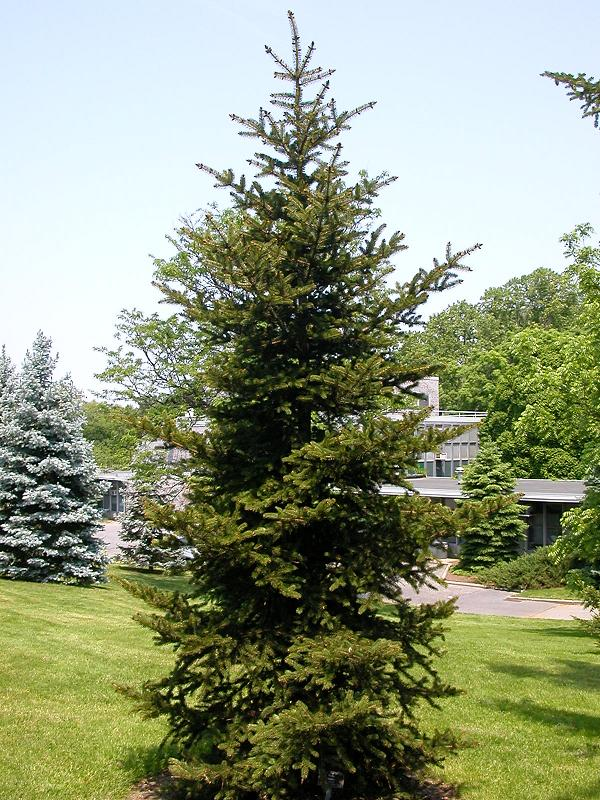 Picea torano (Tigertail Spruce) at the New York Botanical Garden